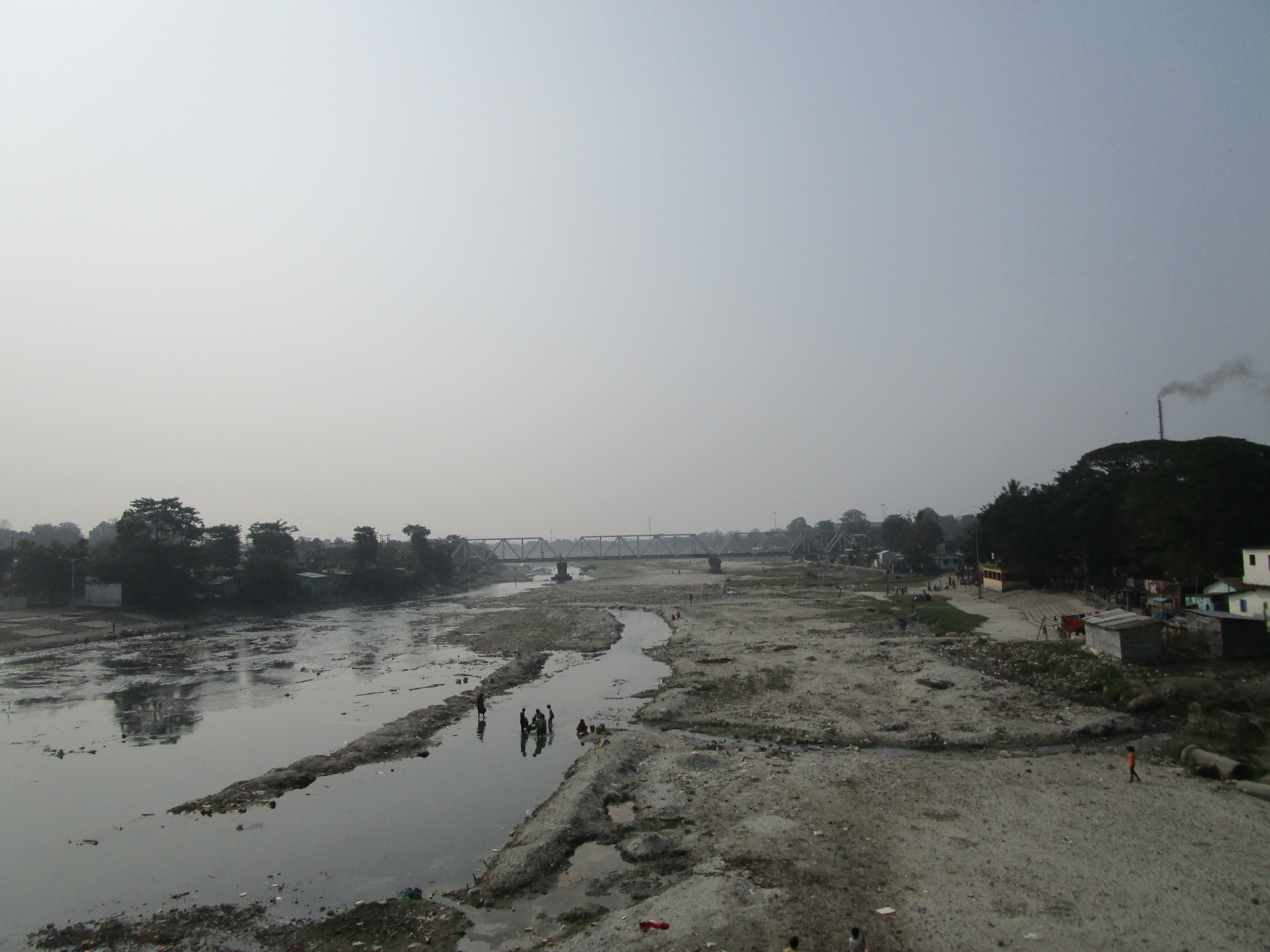 Mahananda River1 at Siliguri Taken from Surya Sen bridge.